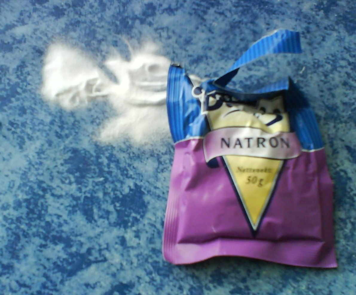 baking soda)